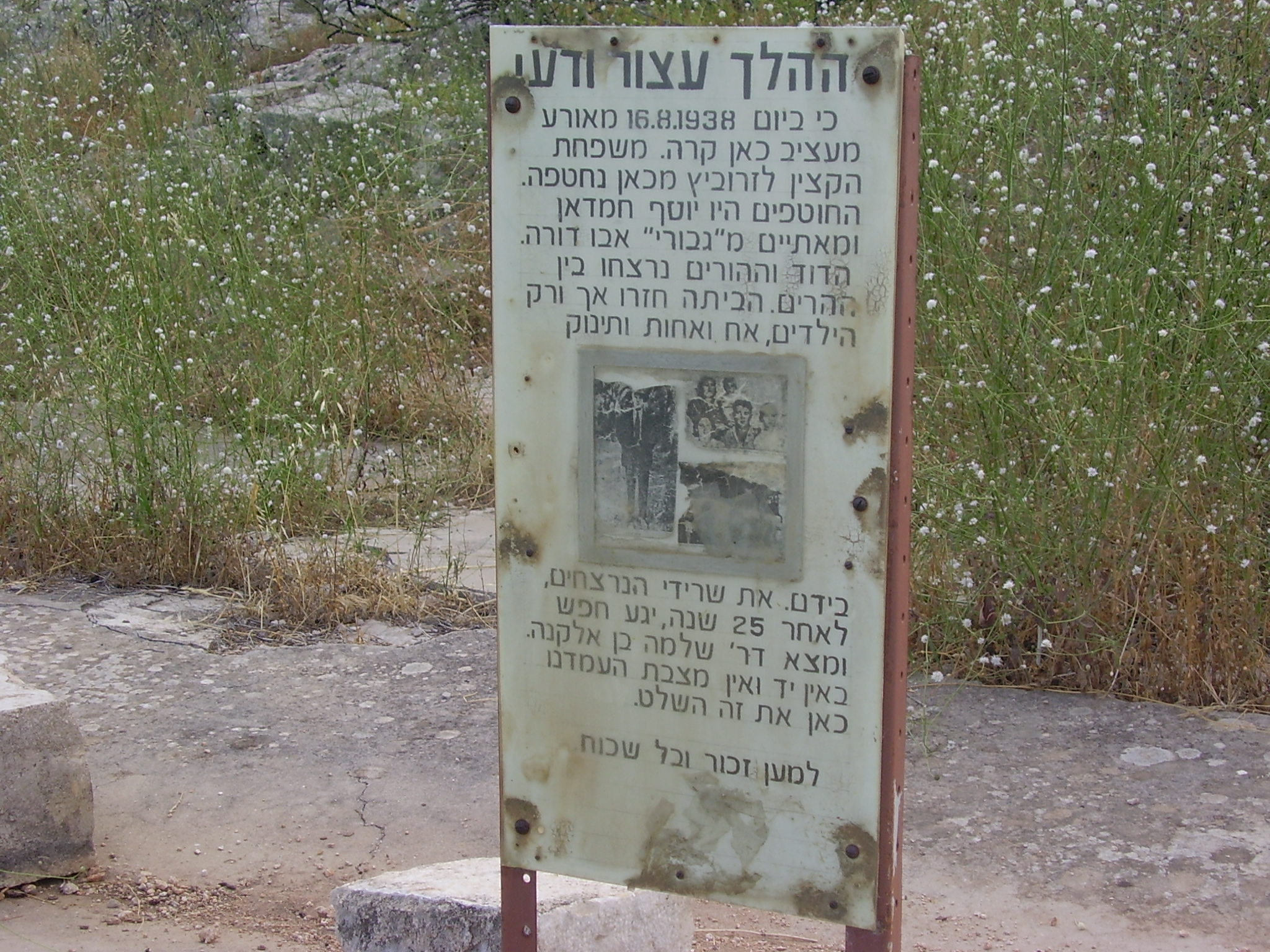 Atlit Detention Camp